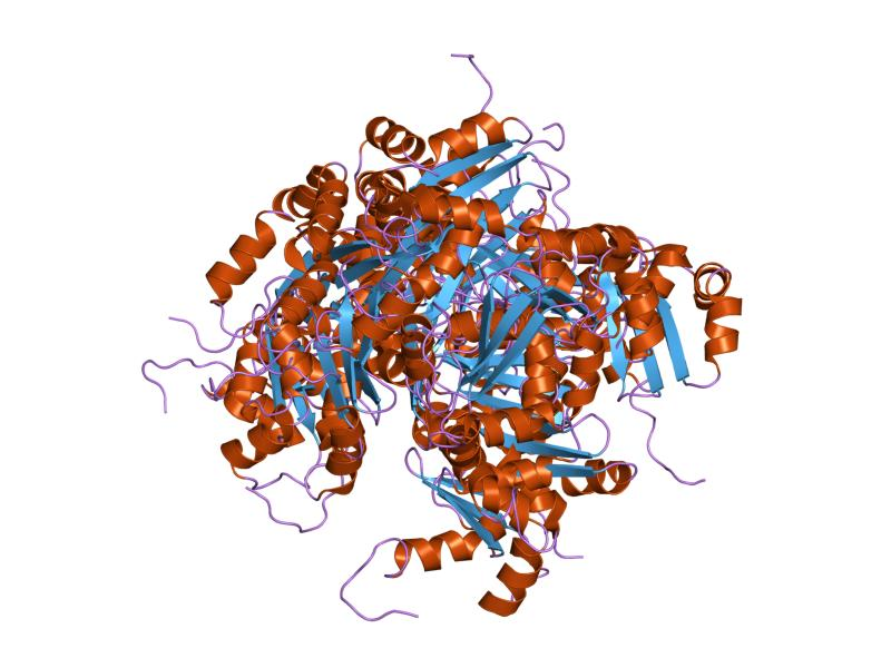 Cartoon representation of the molecular structure of protein registered with 1ny8 code.